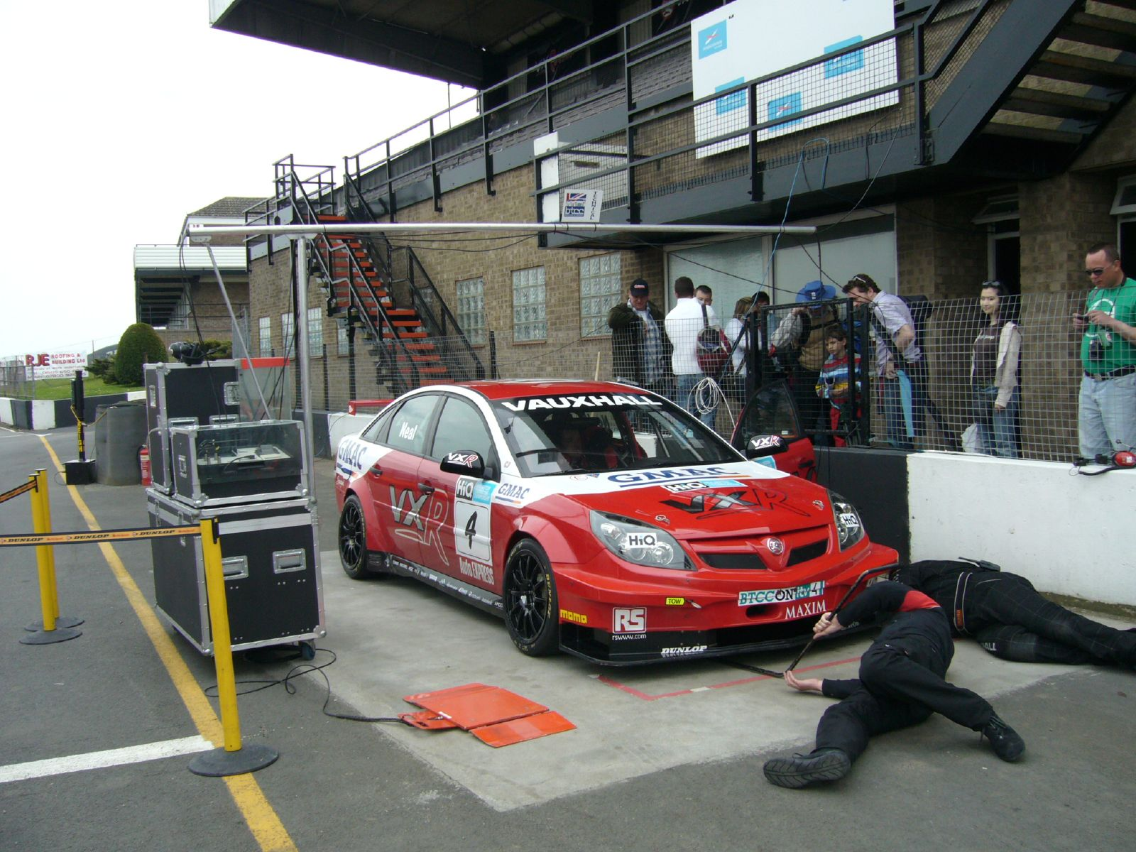 Matt Neals Vauxhall being checked by the team on the weighbridge & ride hight pad @ Donington